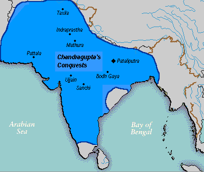 The Maurya Empire after Bindusara's death 269.